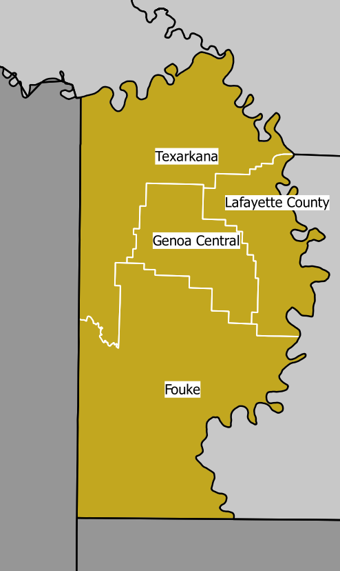 Map of all public school districts in Miller County, AR (mustard) This graphic was created with QGIS Counties Data source: Arkansas GIS Office. Data Provided by Arkansas State Highway and Transportation Department, In Cooperation With The U.S. Department of Transportation Updated 2014-10-16 Public School District Boundary (polygon) (only shown within county of interest): Data source: Arkansas Secretary of State and the Arkansas Geographic Information Systems Office Updated: 2016-07-22